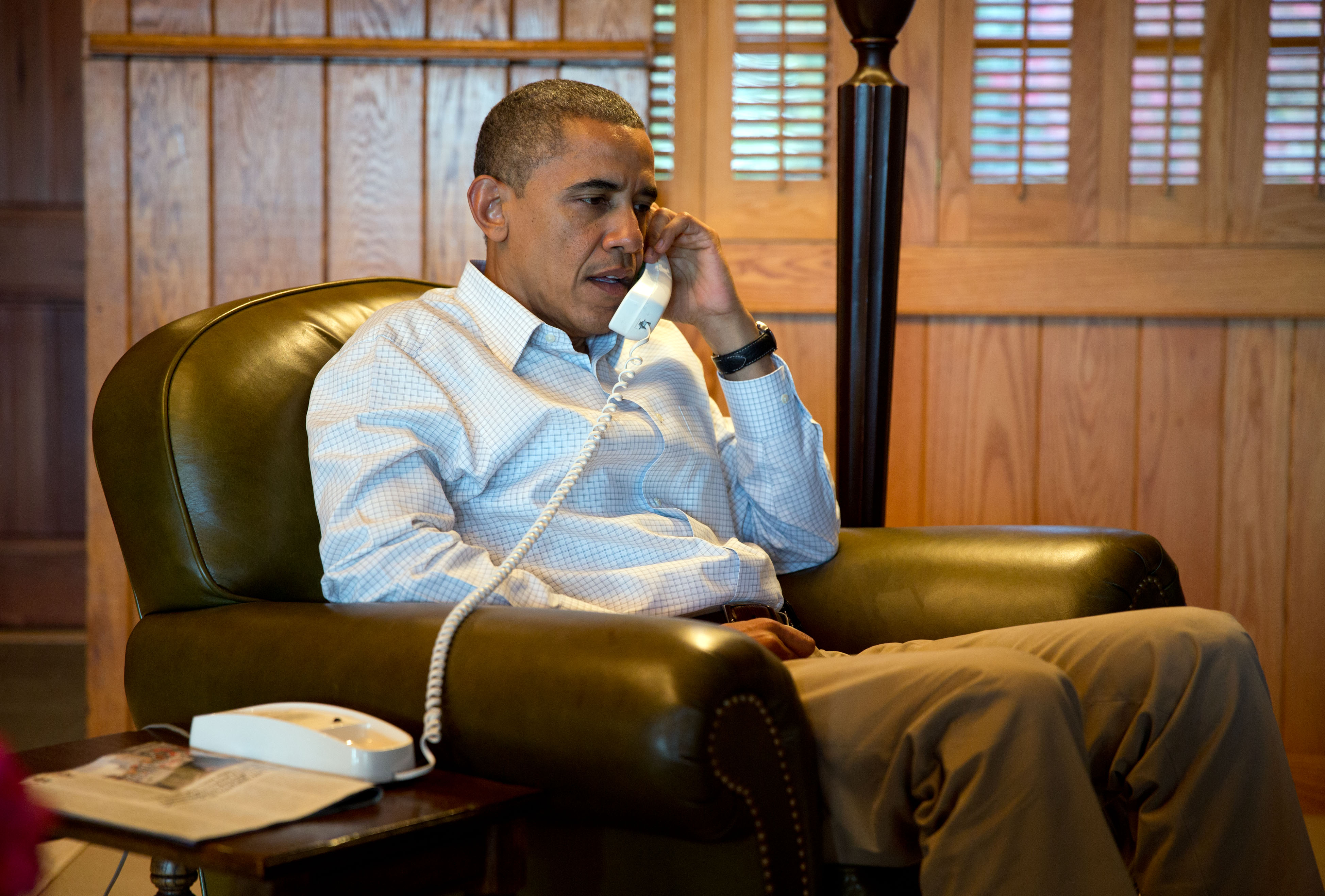 President Barack Obama convenes a conference call at Camp David with Homeland Security Advisor John Brennan, FBI Director Robert Mueller and Chief of Staff Jack Lew to discuss the shooting at a Wisconsin shopping mall